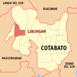 Map of the Cotabato showing the location of Libungan